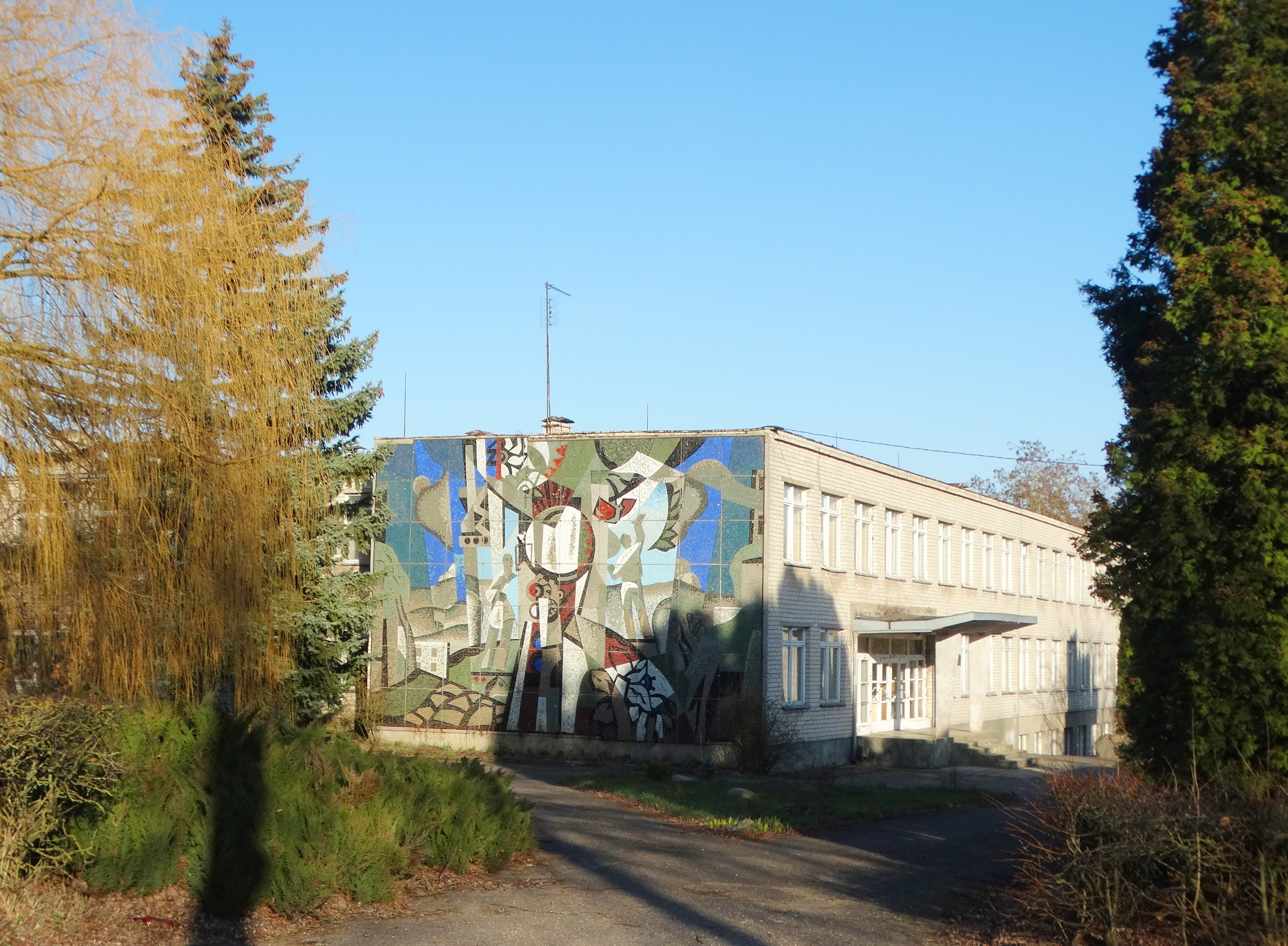 Former Vocational School, Aukštieji Kapliai, Kėdainiai district, Lithuania